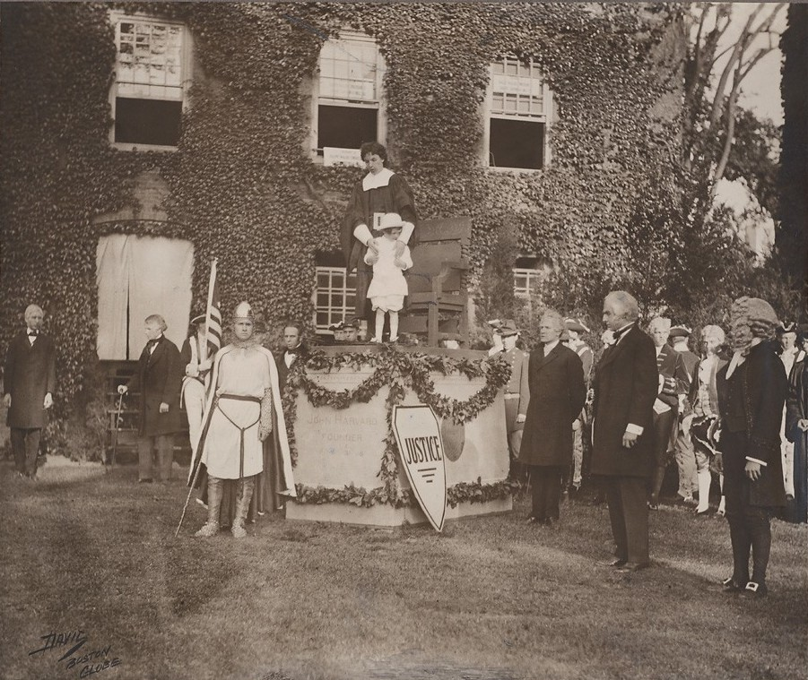 Photograph of Pageant behind Hollis Hall, Harvard University. A note reads, "In celebration of the 150th anniversary of the birthday of 'the' Hall, the figure of John Harvard with the child (Hollis Hall) is Lionel de Jersey Harvard, descendant of [a brother of John Harvard,] the founder of Harvard University." See [1]